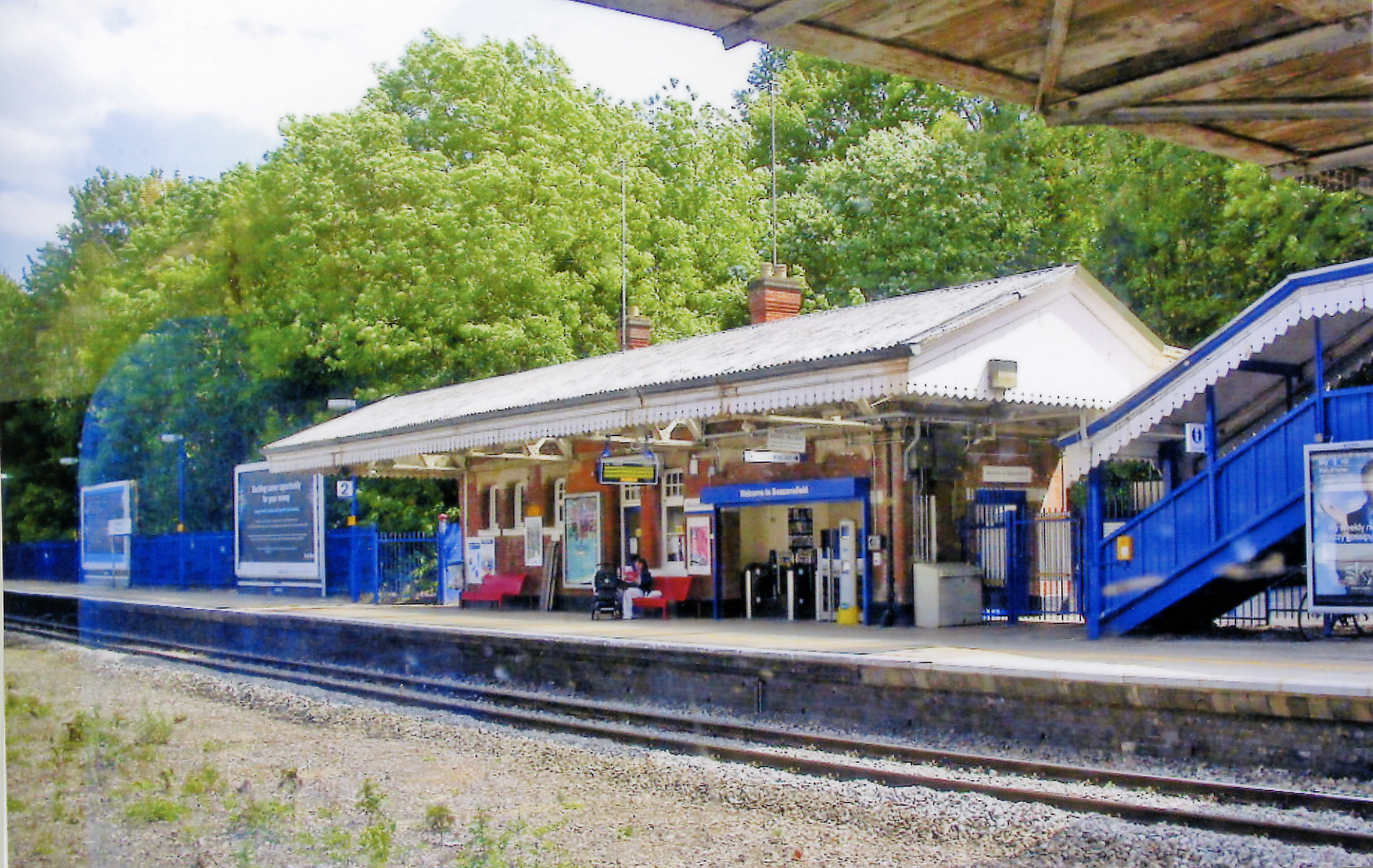 Beaconsfield station, Down platform. The station looked very colourful and smart, as seen from an Up train on the way to Marylebone - the window was very clean